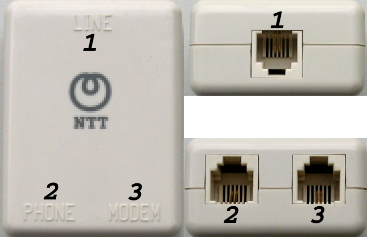 DSL filter, Japan 1. Connect to telephone line. 2. Connect to phone. 3. Connect to ADSL modem.